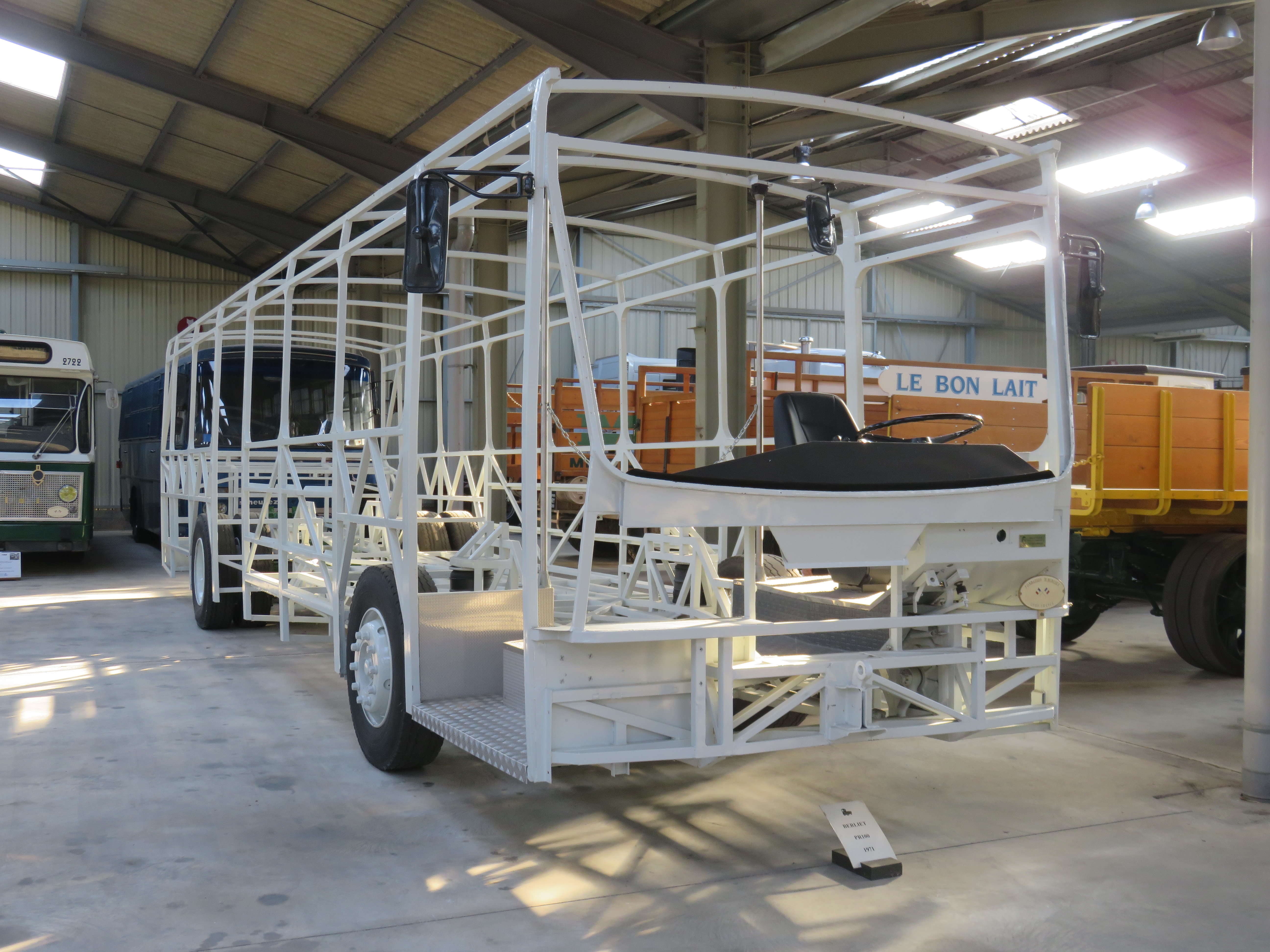 The chassis of a Berliet PR 100 conserved at the Fondation Marius Berliet (Le Montellier, France) on October 20, 2018.